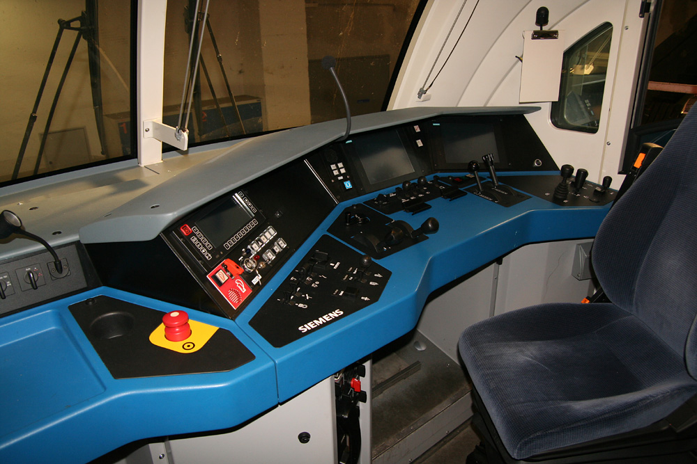 The driver's cab of an ÖBB class 1216 engine